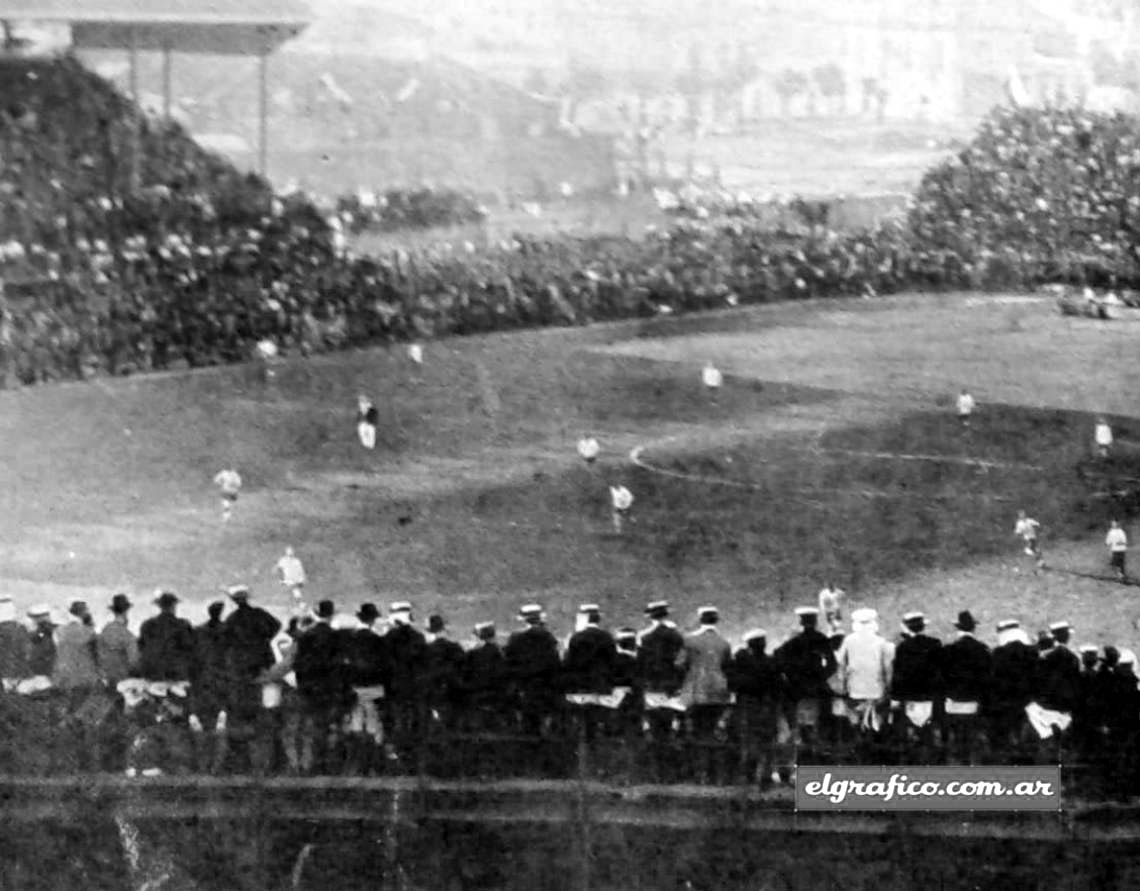 The crowd at Boca Juniors stadium.